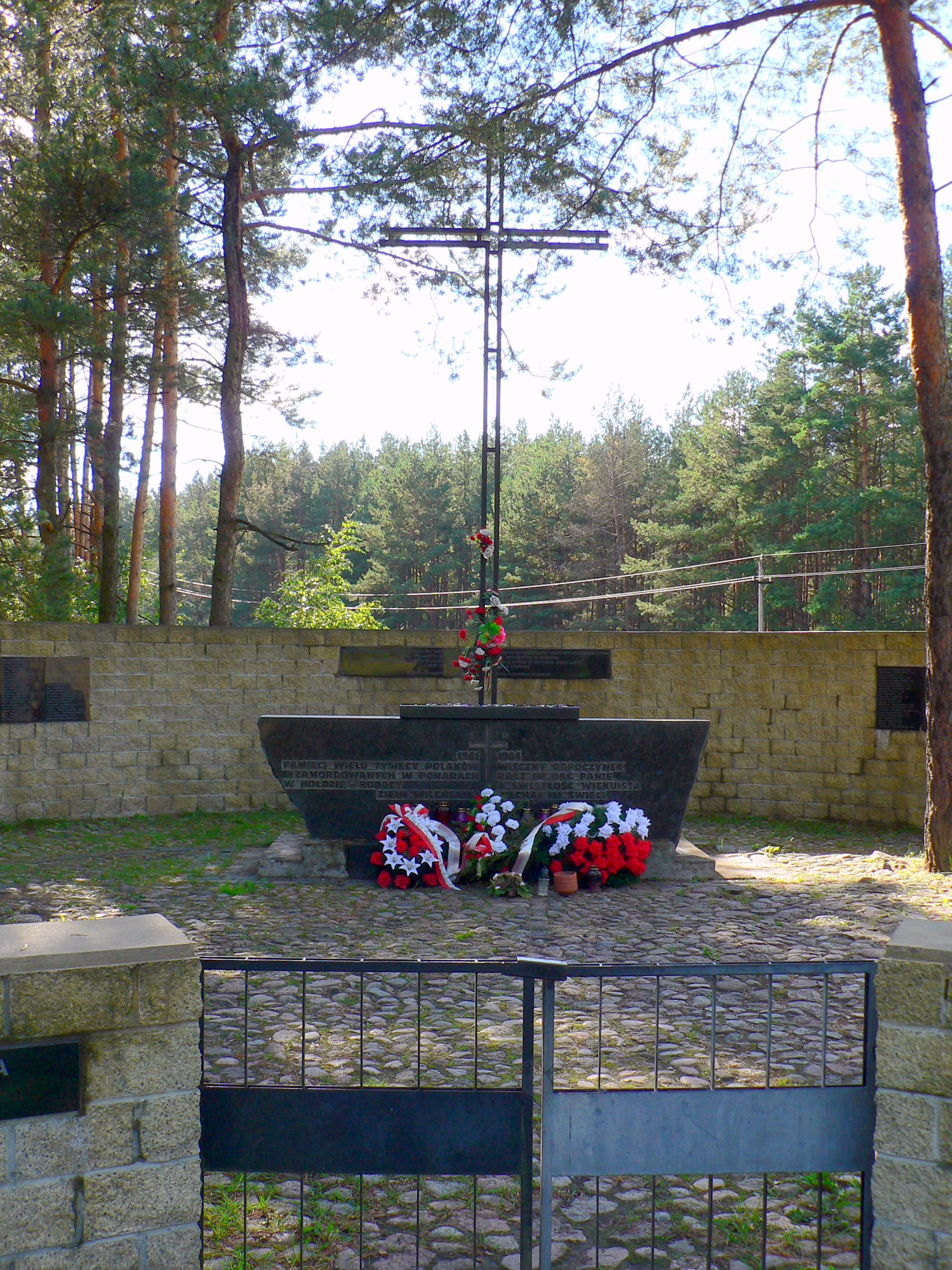 Monument commemorating Poles murdered in Paneriai massacre, Paneriai, Vilnius, Lithuania. Text (translation from Polish): "In a tribute to many thousands of Poles murdered in Ponary, countryman from Wilno region." The right side is a prayer for the dead.